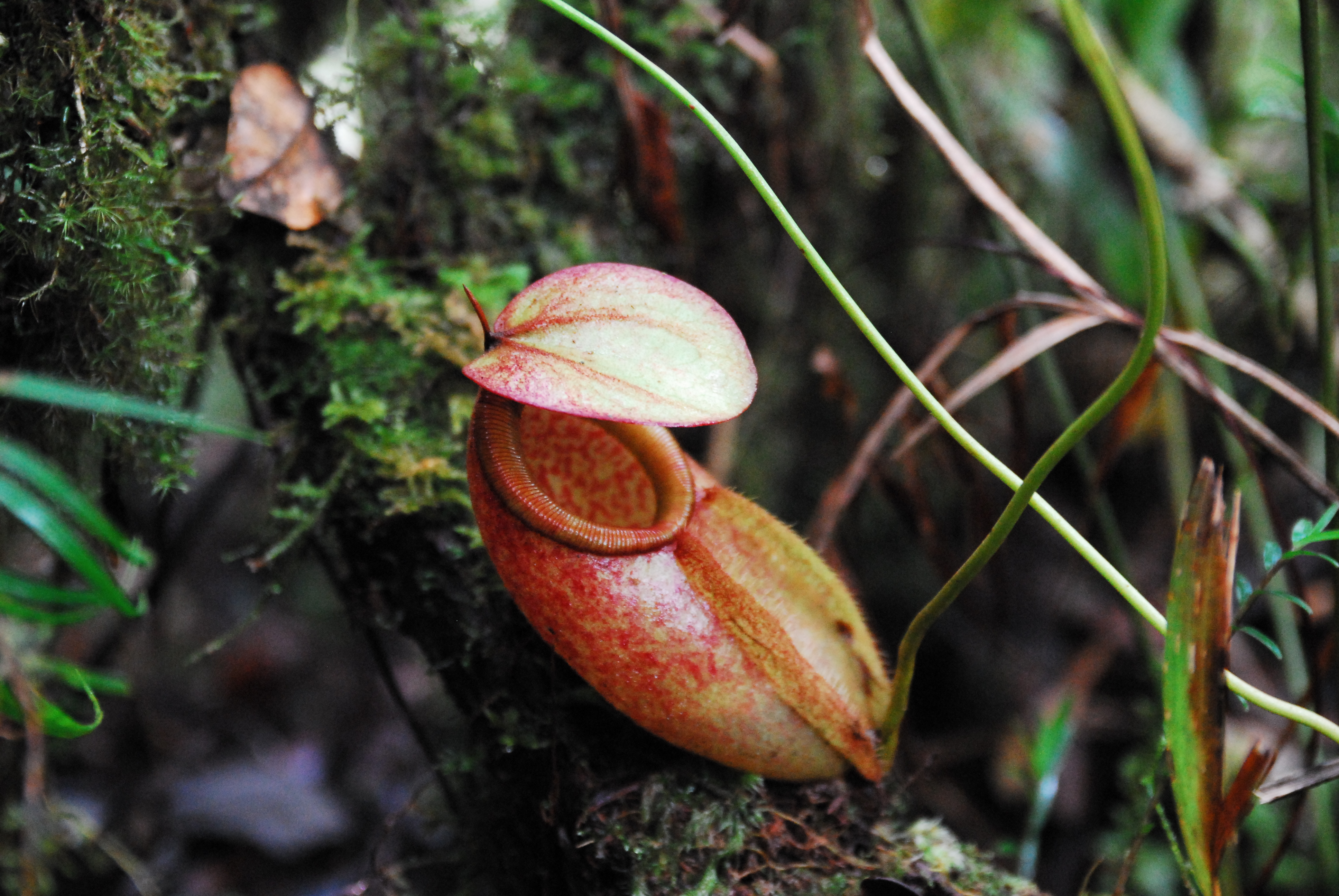 Nepenthes surigaoensis lower pitcher from Mount Masay, Mindanao, Philippines